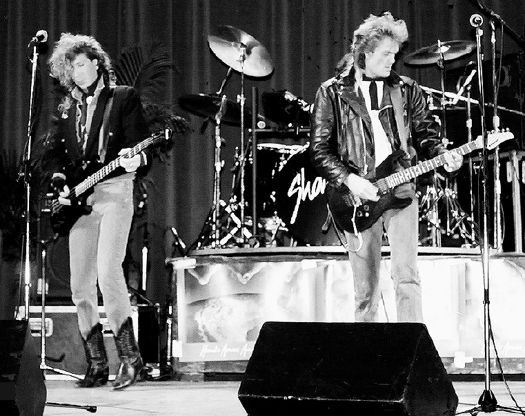 The Sharks (Shea Quinn & Sam Lugar) at the at Tower Theater in Upper Darby This was a WYSP-FM all day live radio broadcast promoting the upcoming "Hands Across America" event on May 25th, 1986No other photography details available.